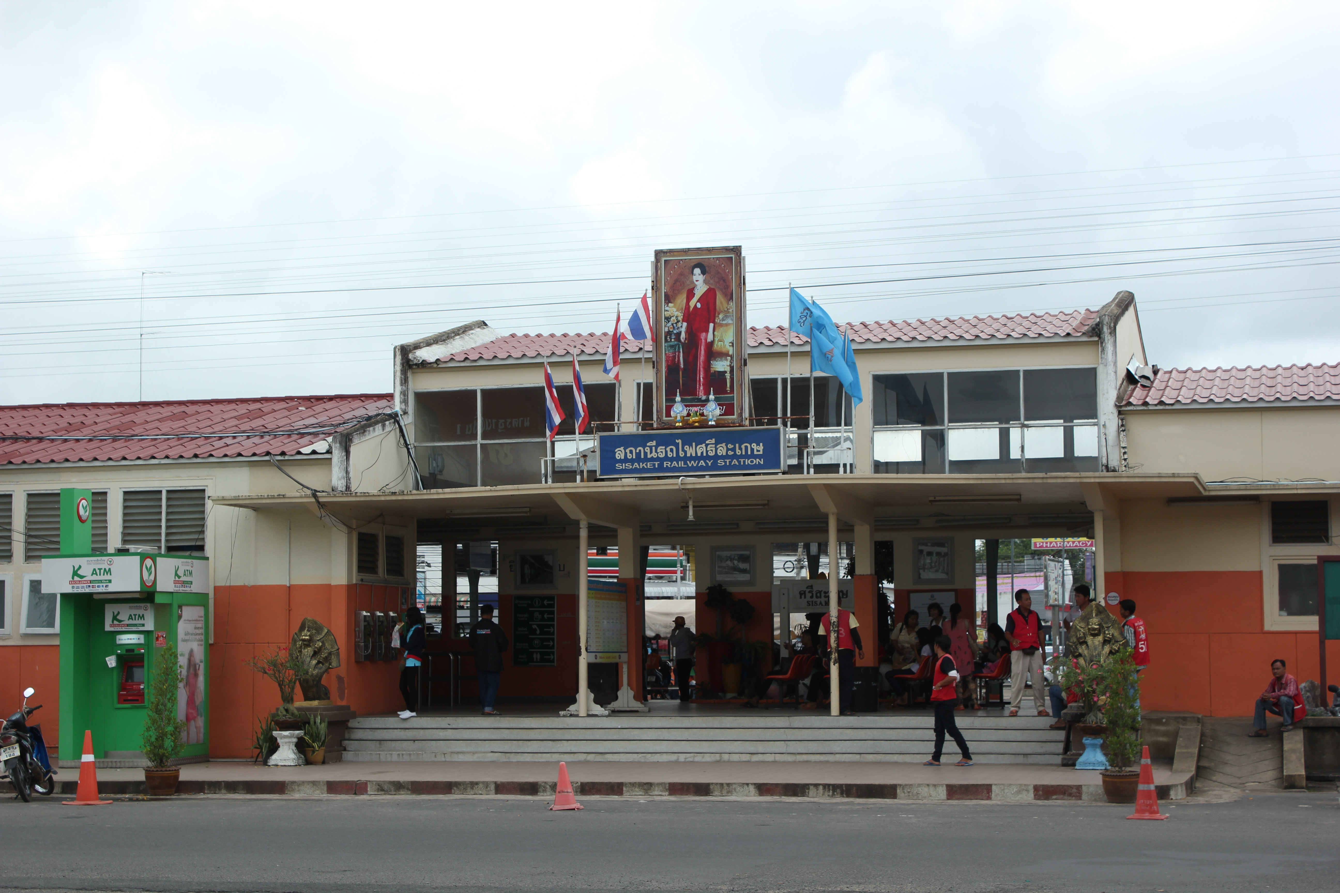 Sisaket station